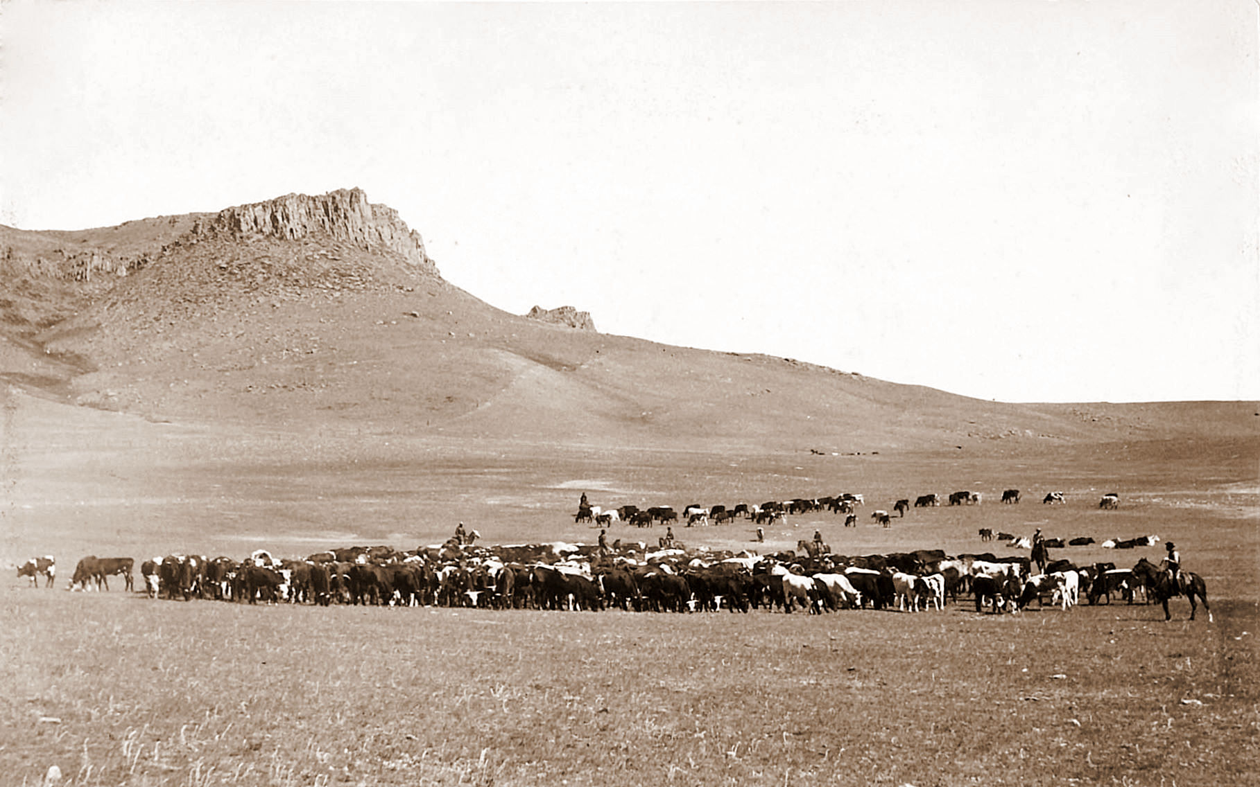 Cattle Roundup, Great Falls, MT, album by Geo B Bonnell, c1890. View of western scenery with mounted cowboys scattered among the cattle.